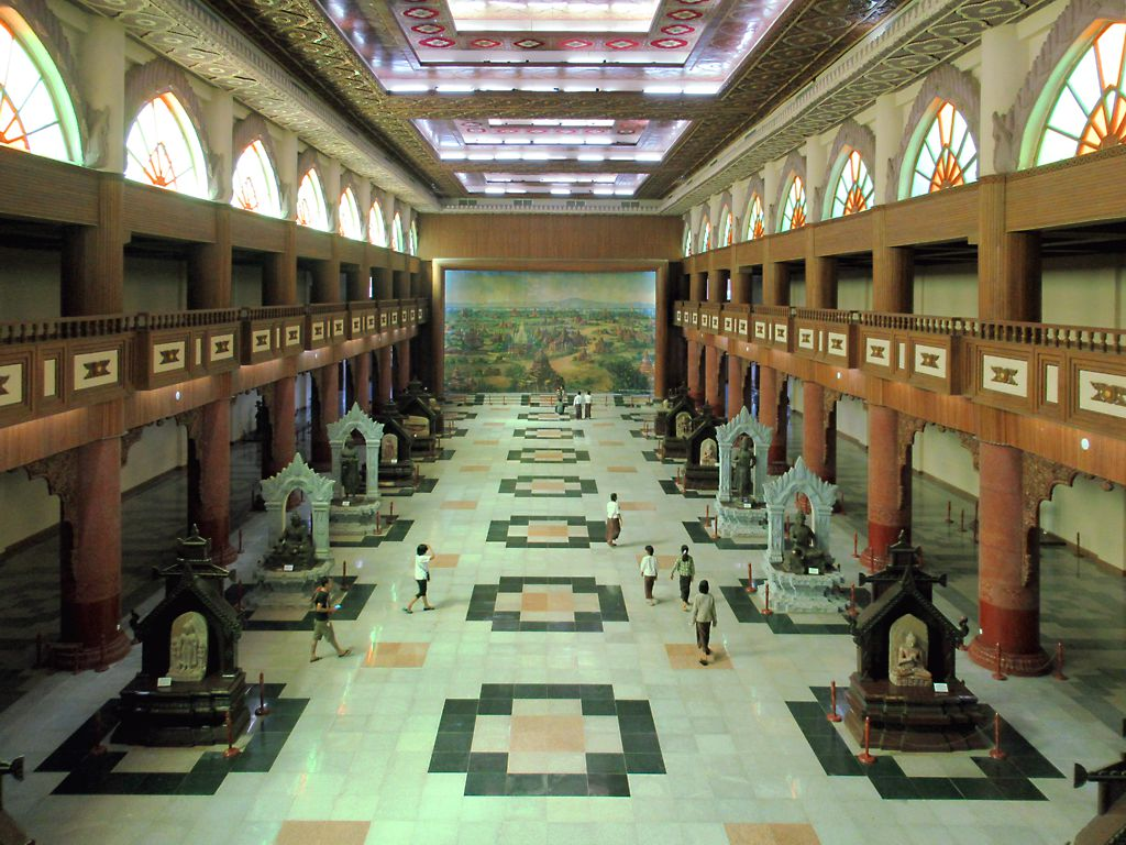 The Bagan Archaeological Museum in Bagan, Myanmar (Burma), opened in 1998.